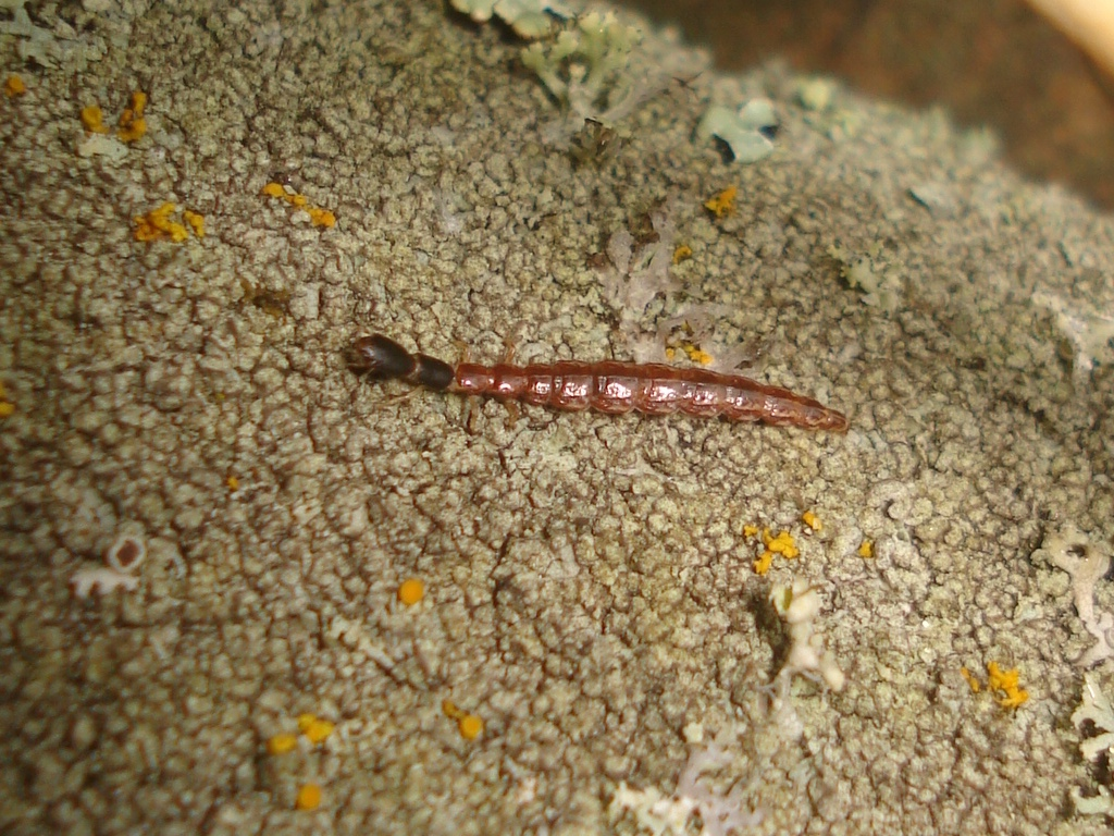 Raphidia